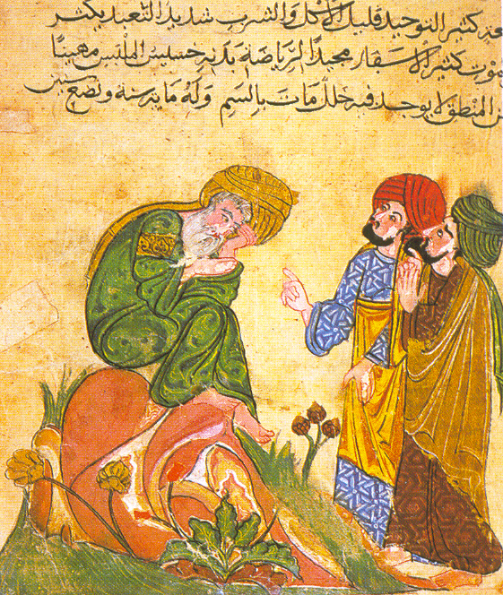 Manuscript of Sughrat (Socrates) belongs to a 13th century Seljuk illustrator. It is currently kept at Topkapi Palace Library, Istanbul, Turkey.